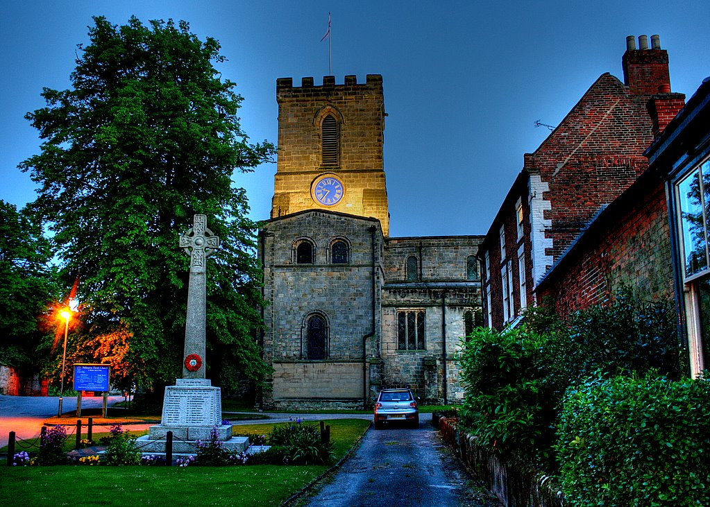 War memorial and parish church of SS Michael and Mary, Melbourne, Derbyshire, seen from the north